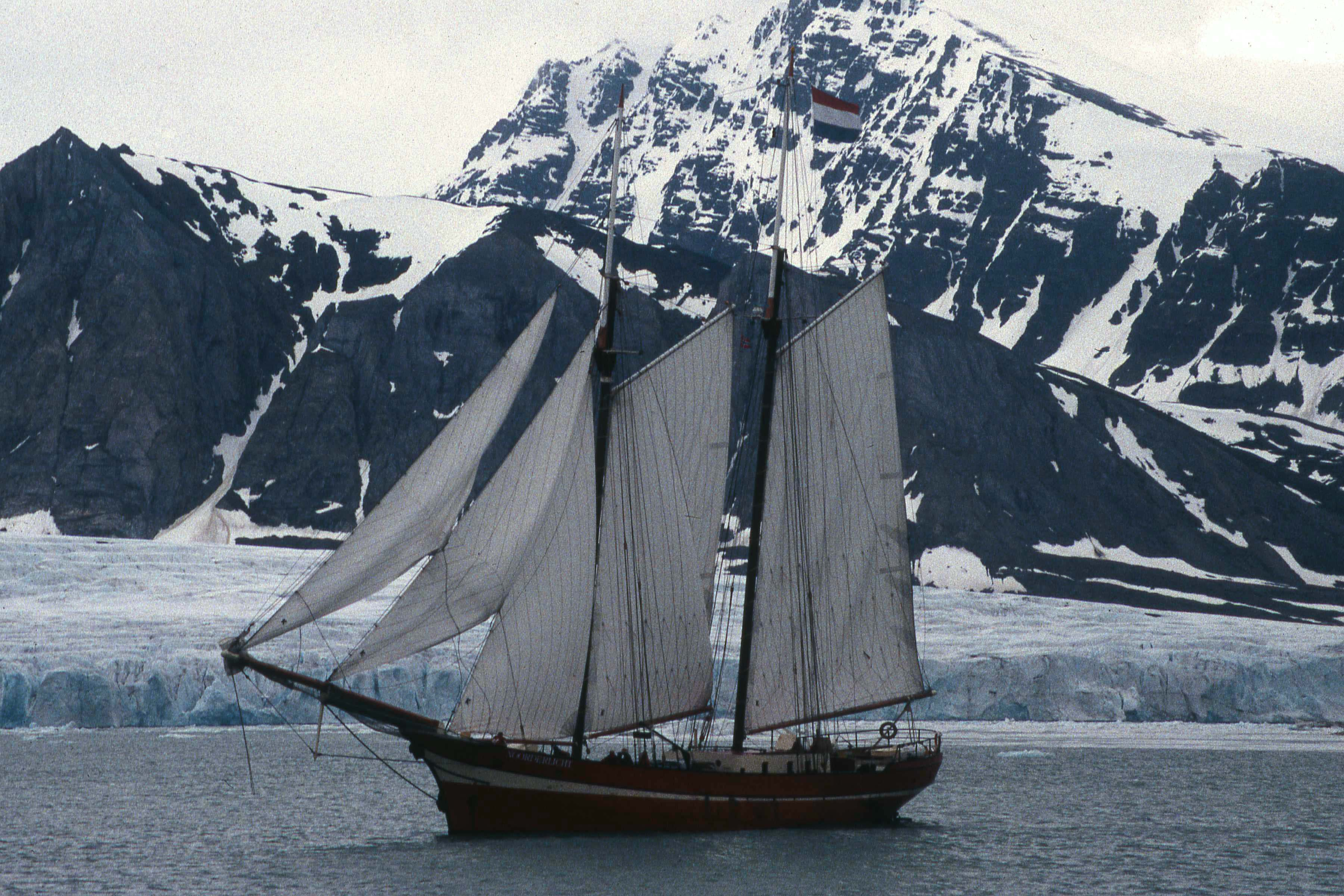 Departure of the Noorderlicht from Blomstrand bay in Kongsjorden on the West coast of Spitsbergen. At that time it was not clear that Blomstrand Halvoja was an island. Ice covered the water between the island and the main island. The sails are just hoisted. In the background there is the big Blomstrandbreem gletser. View from the North beach.